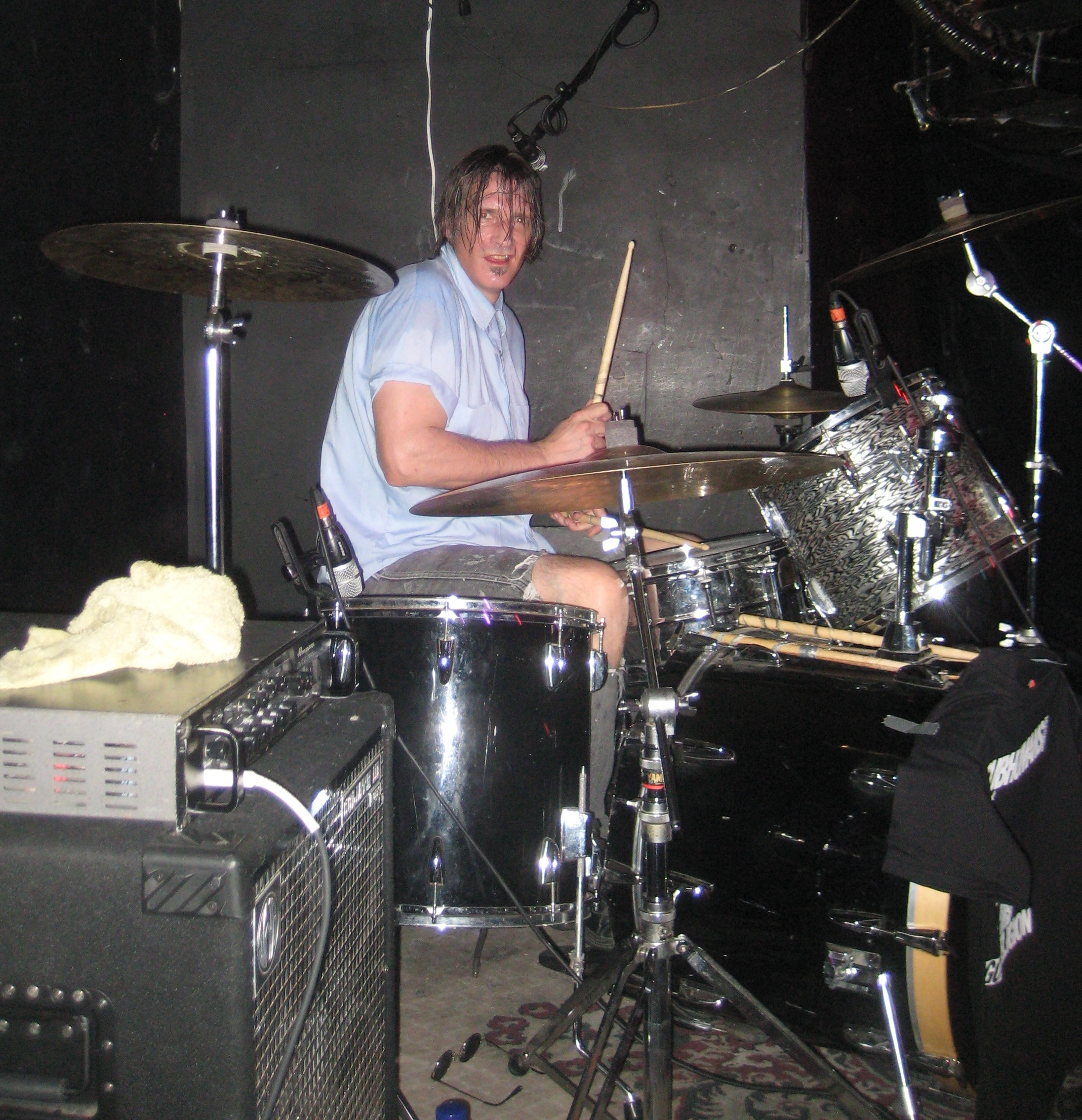 Jon Card playing drums with the Subhumans in Montreal, September 2010.